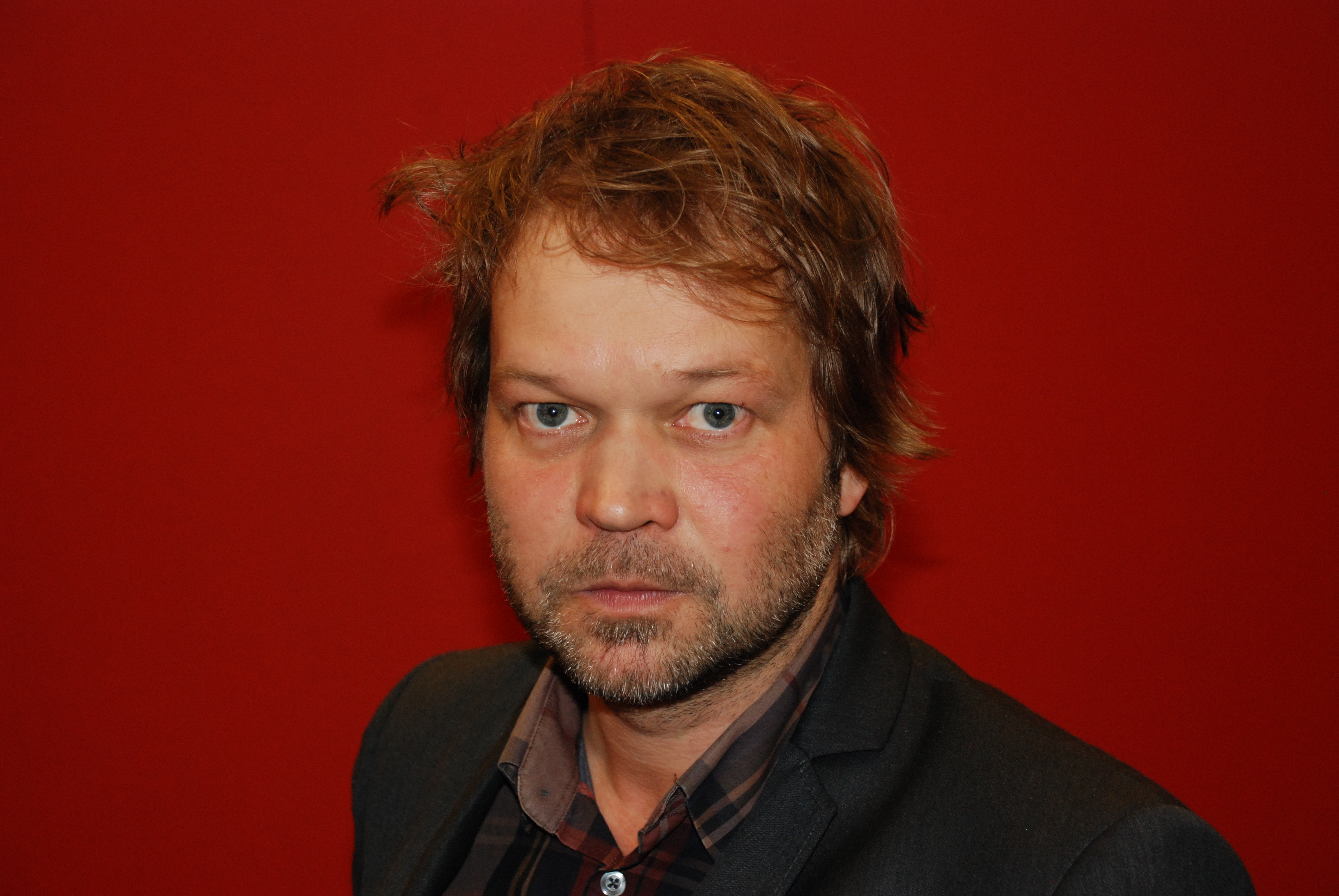 The Swedish author Tomas Bannerhed at Göteborg Book Fair 2012.